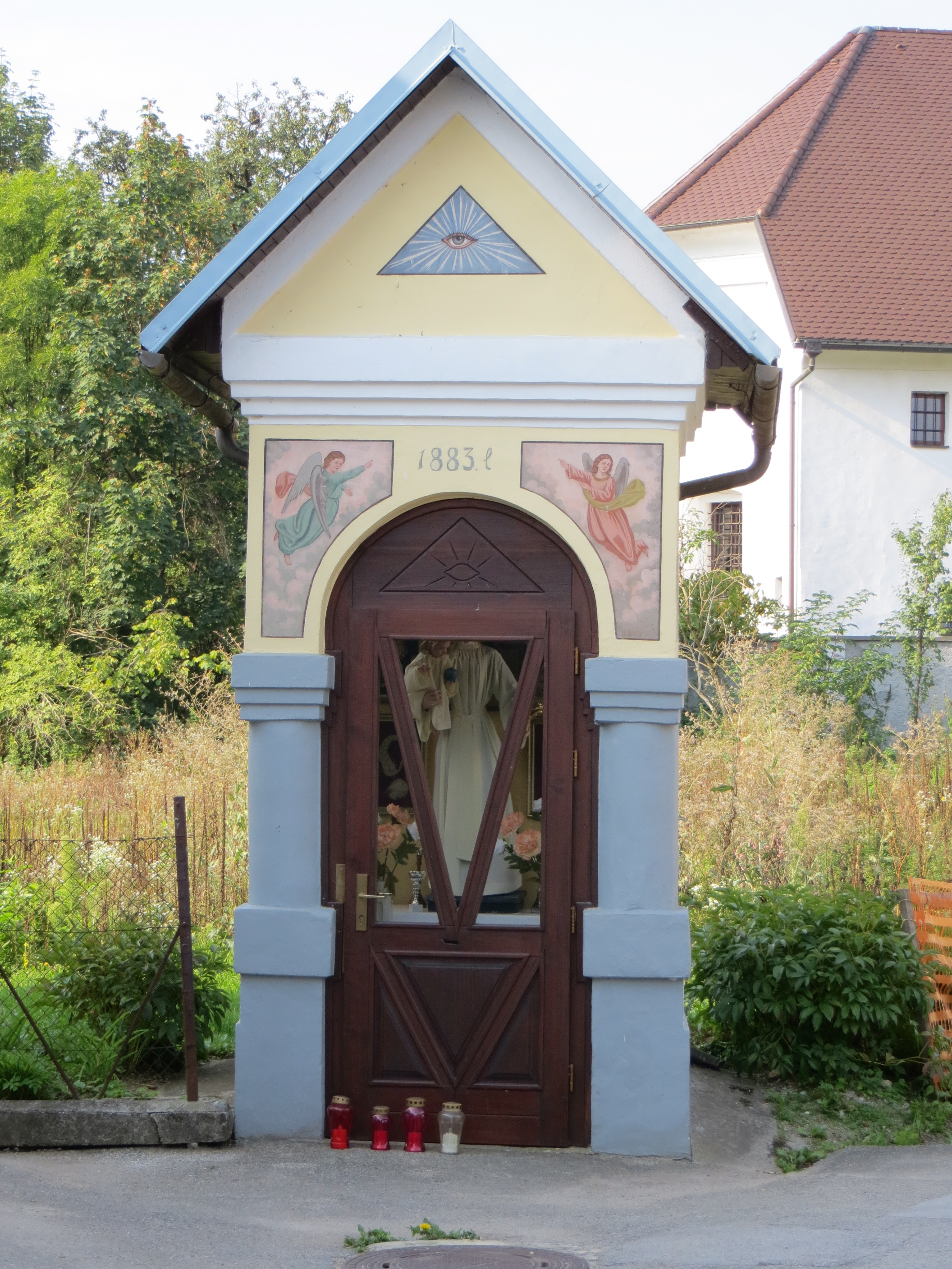 Chapel-shrine dedicated to the Virgin Mary in Trboje, Municipality of Šenčur, Slovenia